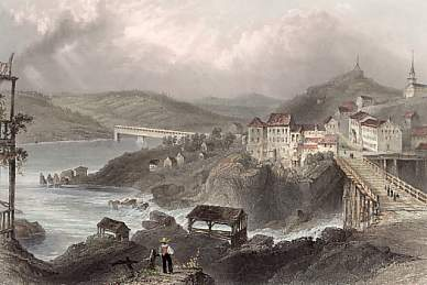 Sherbrooke, Canada, showing the confluence of the St Francis River and Magog River. Original drawn by W. H. Bartlett and engraved by J. Smith in 1841